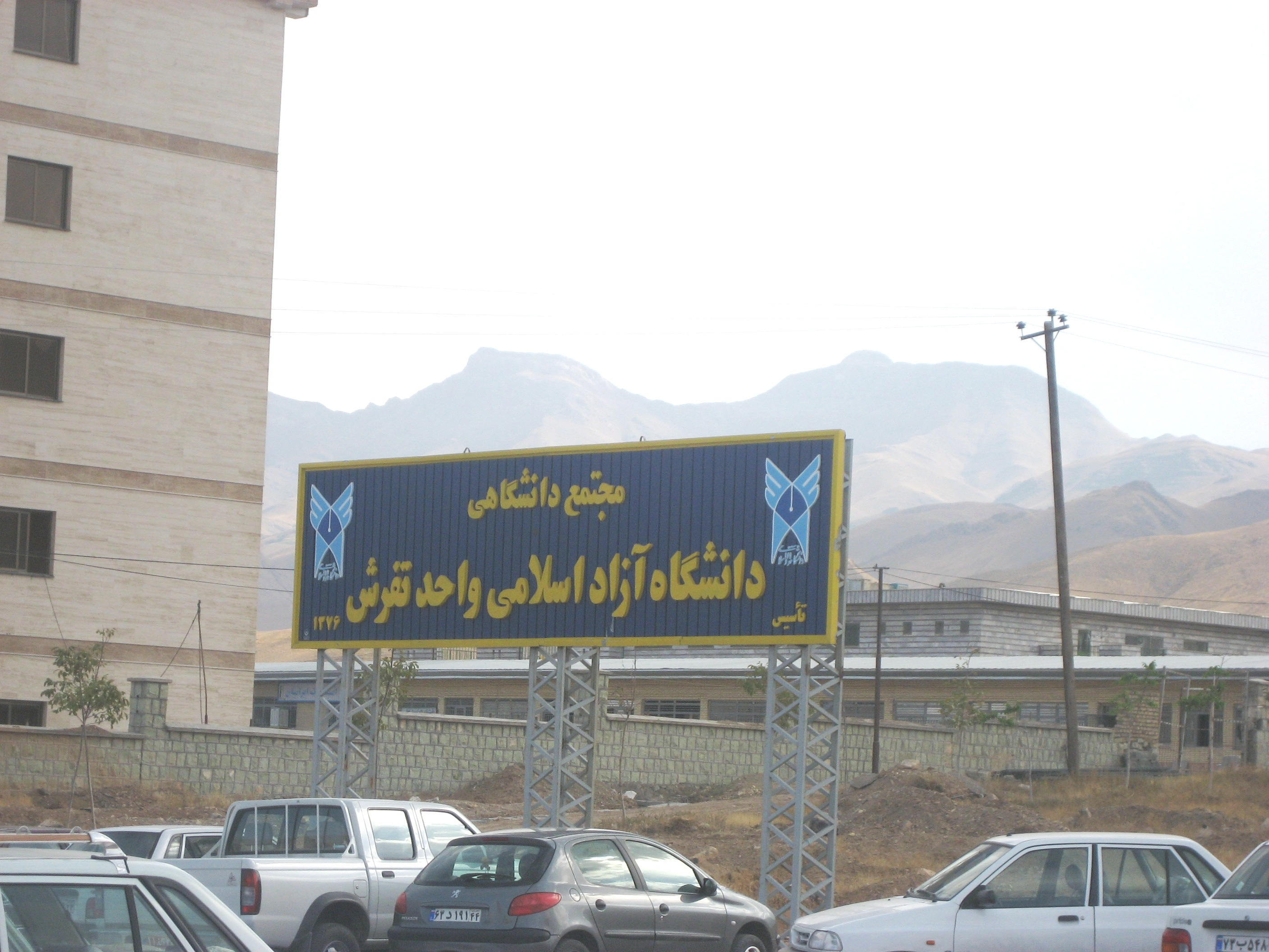 Tafresh Azad University, Tafresh, Iran